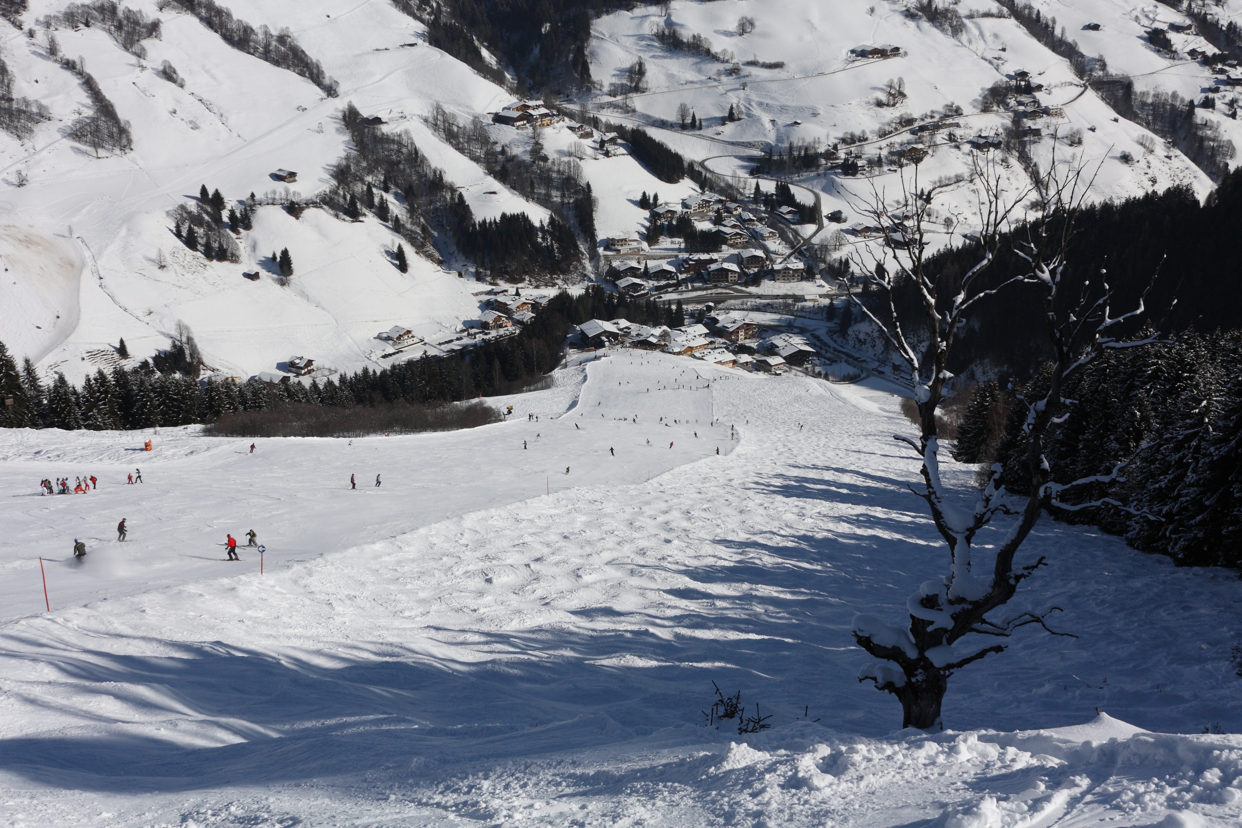 The last part of the Jausernabfahrt slope with Vorderglemm village in the background, Saalbach-Hinterglemm, Austria.